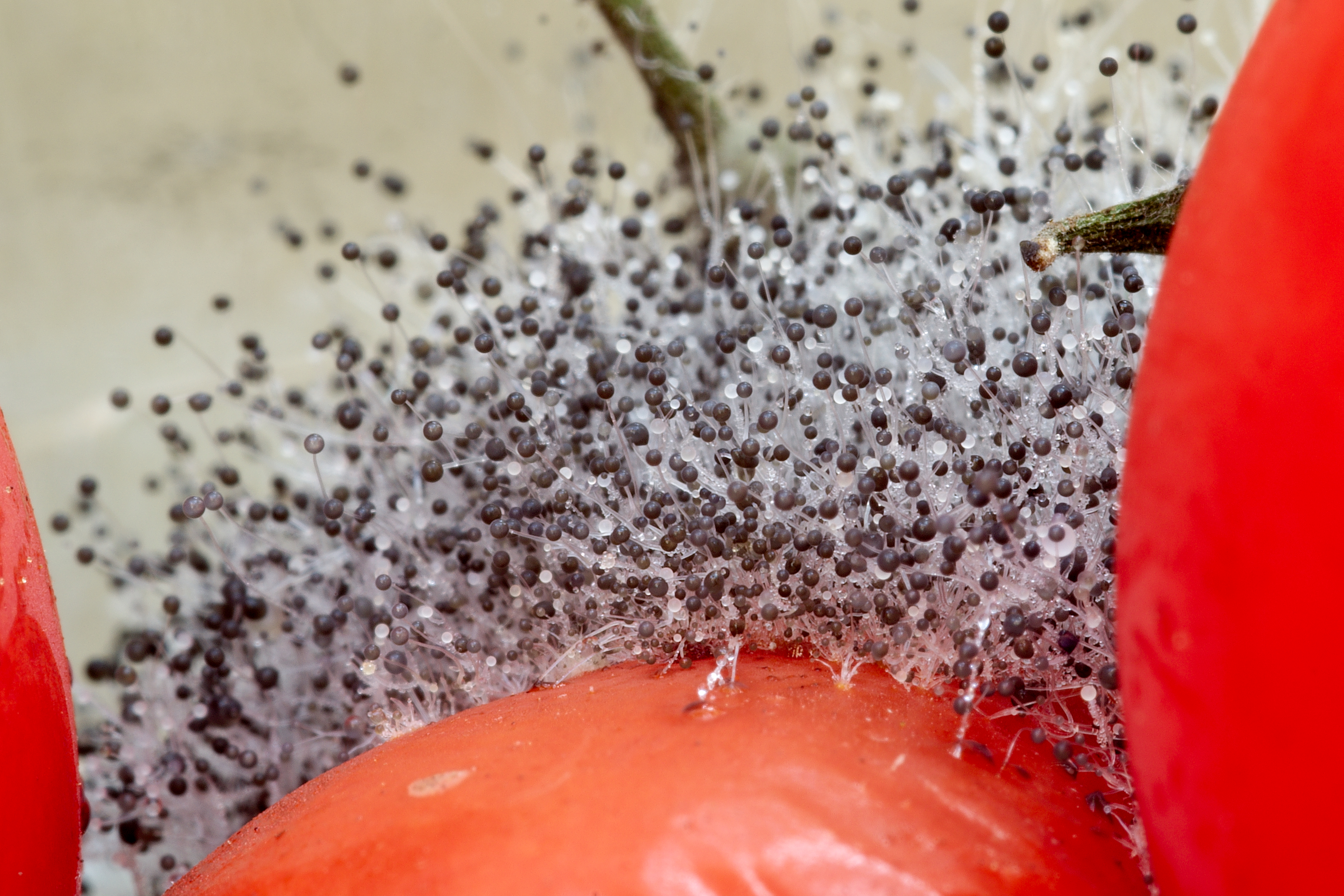 Mold (probably Rhizopus stolonifer, see [2]) on ripe tomatoes